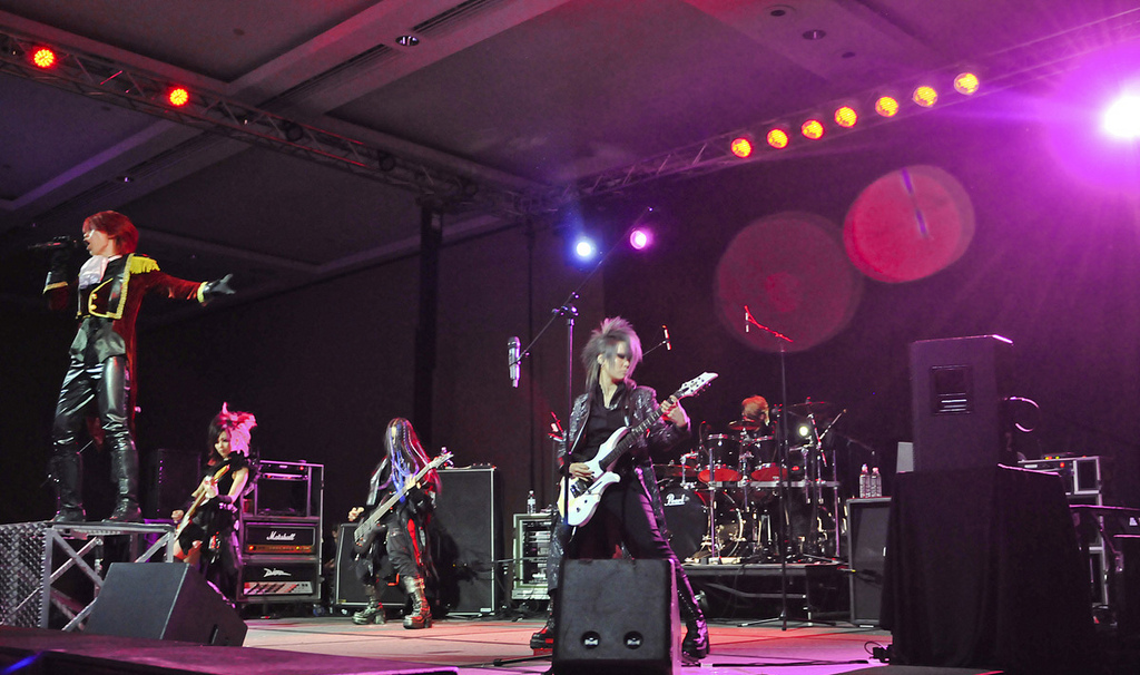 Japanese music band Exist Trace at Tekko X anime con in Pittsburgh, 2012.